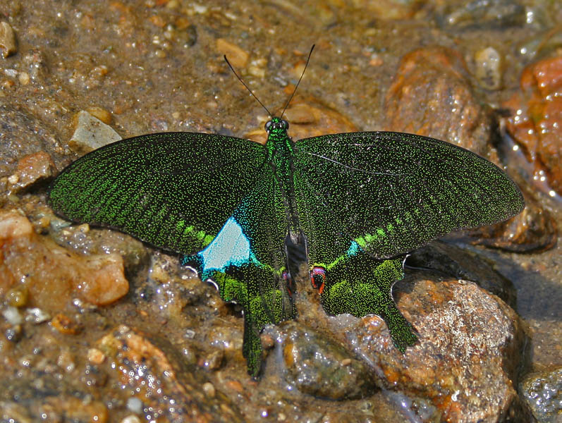 Paris Peacock Papilio paris at Samsing in Darjeeling district of West Bengal, India.